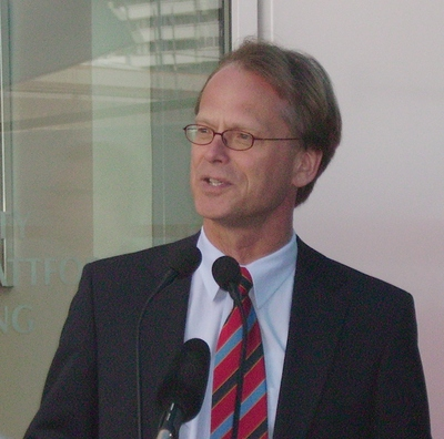 The mayor of Bremerhaven Jörg Schulz at the opening ceremony for the visitors' terrace of the Atlantic Hotel SailCity